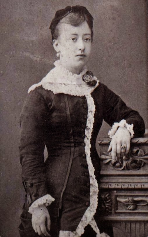 Elzira Dantas Machado, First Lady of Portugal (1915-1917; 1925-1926), in her youth.